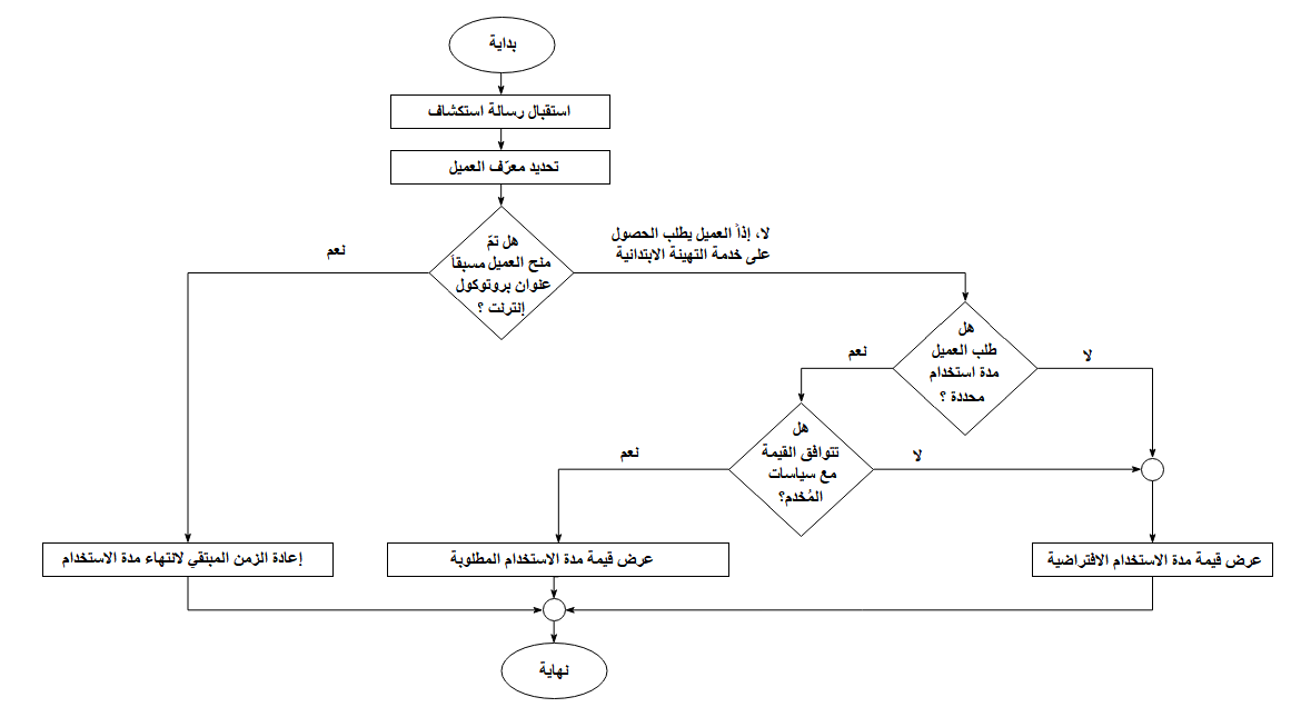 A flowchart for the choosing of the lease address in DHCP client.